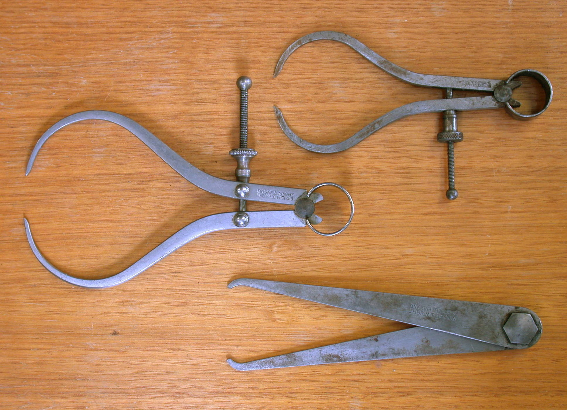 Two styles of outside calipers. Used to measure or compare sizes of objects.